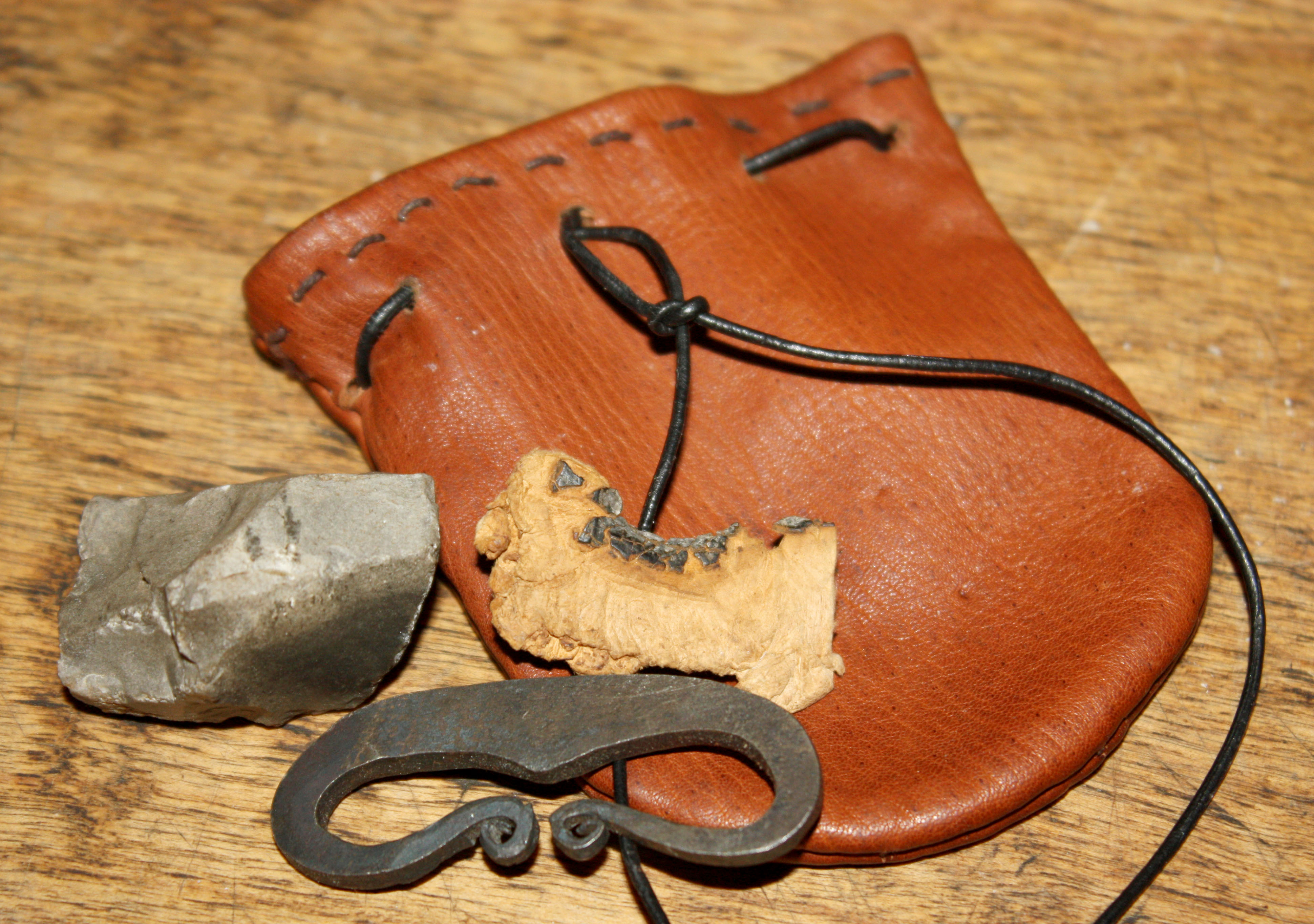 Tinderbox